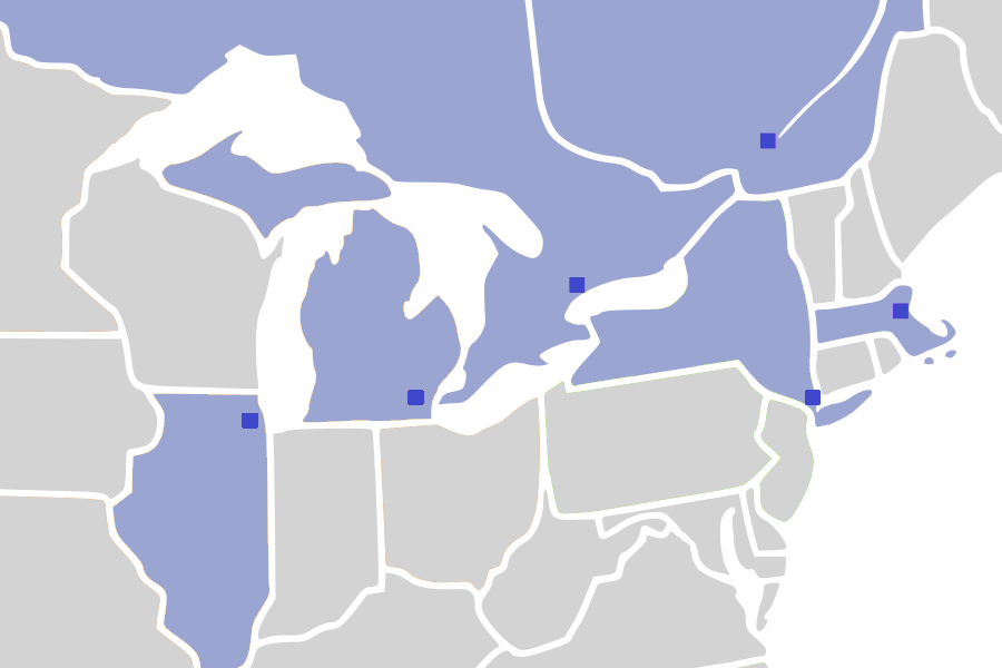 Map of Original Six teams